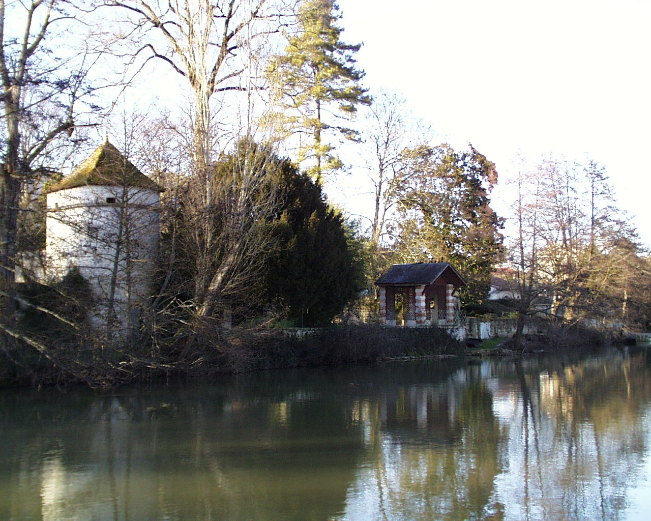 Personal photograph of the Sèvre niortaise, taken in the surroundings of Niort in February 2000 by Accrochoc with an Olympus digital camera, model Camedia 1400, 1.4 mega pixels